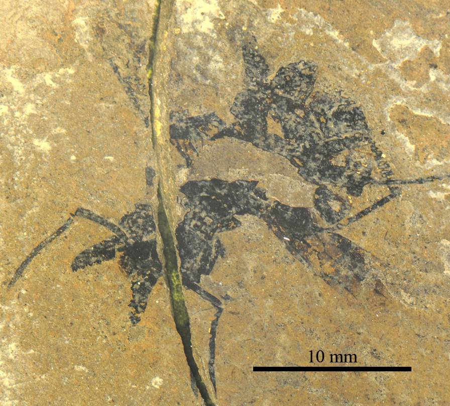 Dorsal view of the Cephalopone grandis holotype queen. Specimen SMFMEI5361